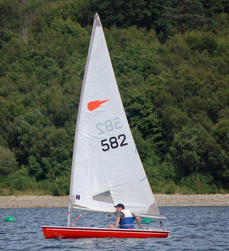 Comet 582 at Comet Open Meeting